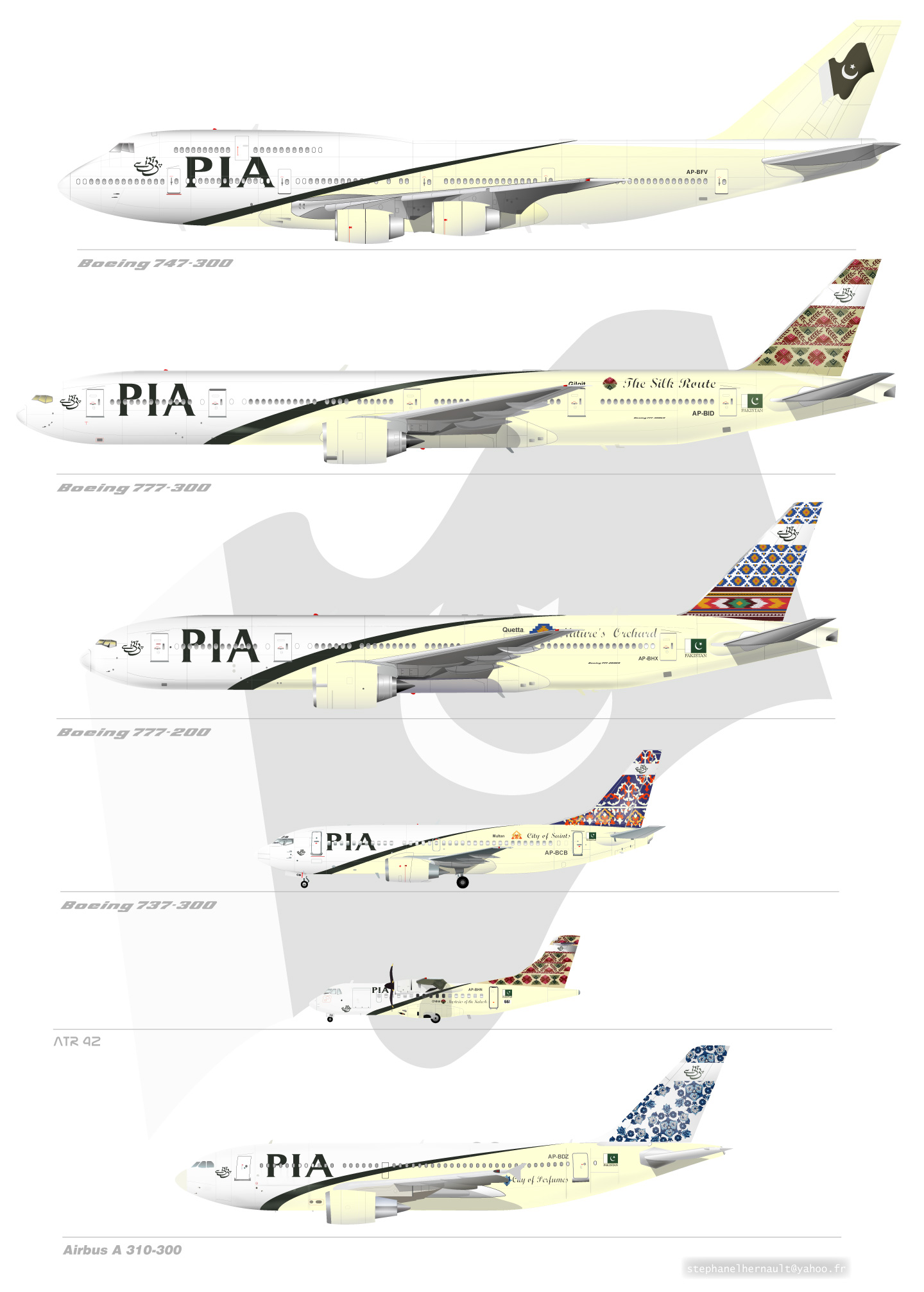 Pakistan International Airlines Fleet